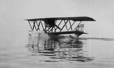 Author unknown; source: HISTARMAR website; URL: (picture) (article) Fair use rationale: picture is from period 1919-1928 (when aircraft was in use by Argentine Naval Aviation), hence copyright expired (see rationale used in "ARA Garibaldi" image, similar case to this pic). "...This image is in the public domain because the copyright of this photograph, registered in Argentina, has expired. (Both at least 25 years have passed after the photograph was created, and it was first published at least 20 years ago, Law 11.723, Article 34 as amended, and Berne Convention Article 7 (4))."